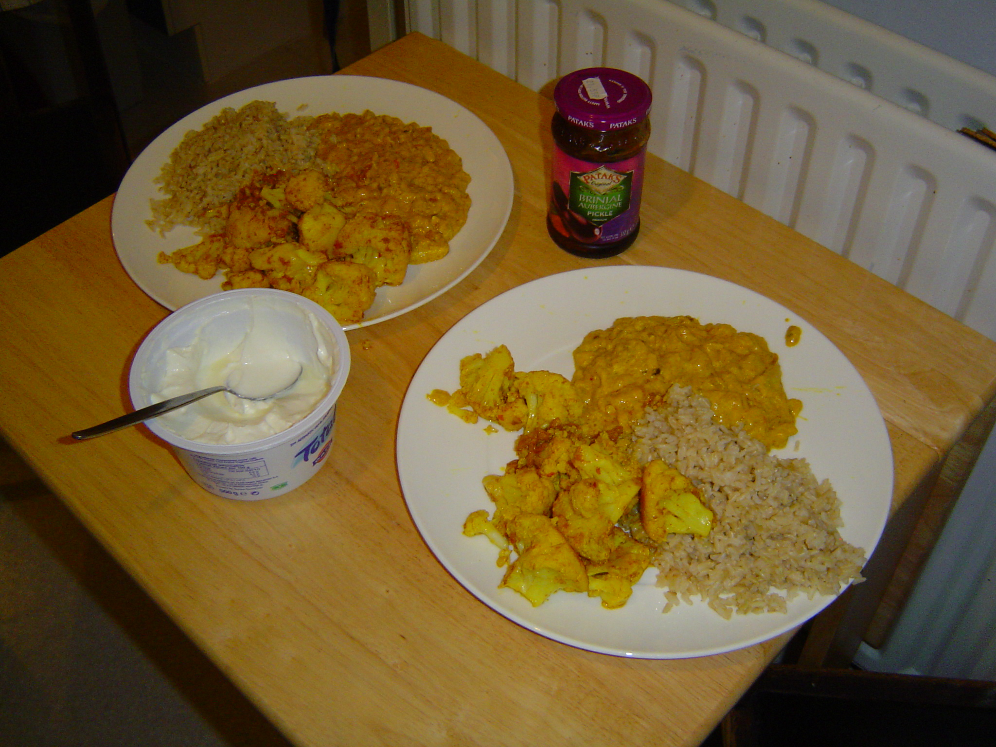 Banana Curry, Caulifower Curry, Brown Rice (East London).